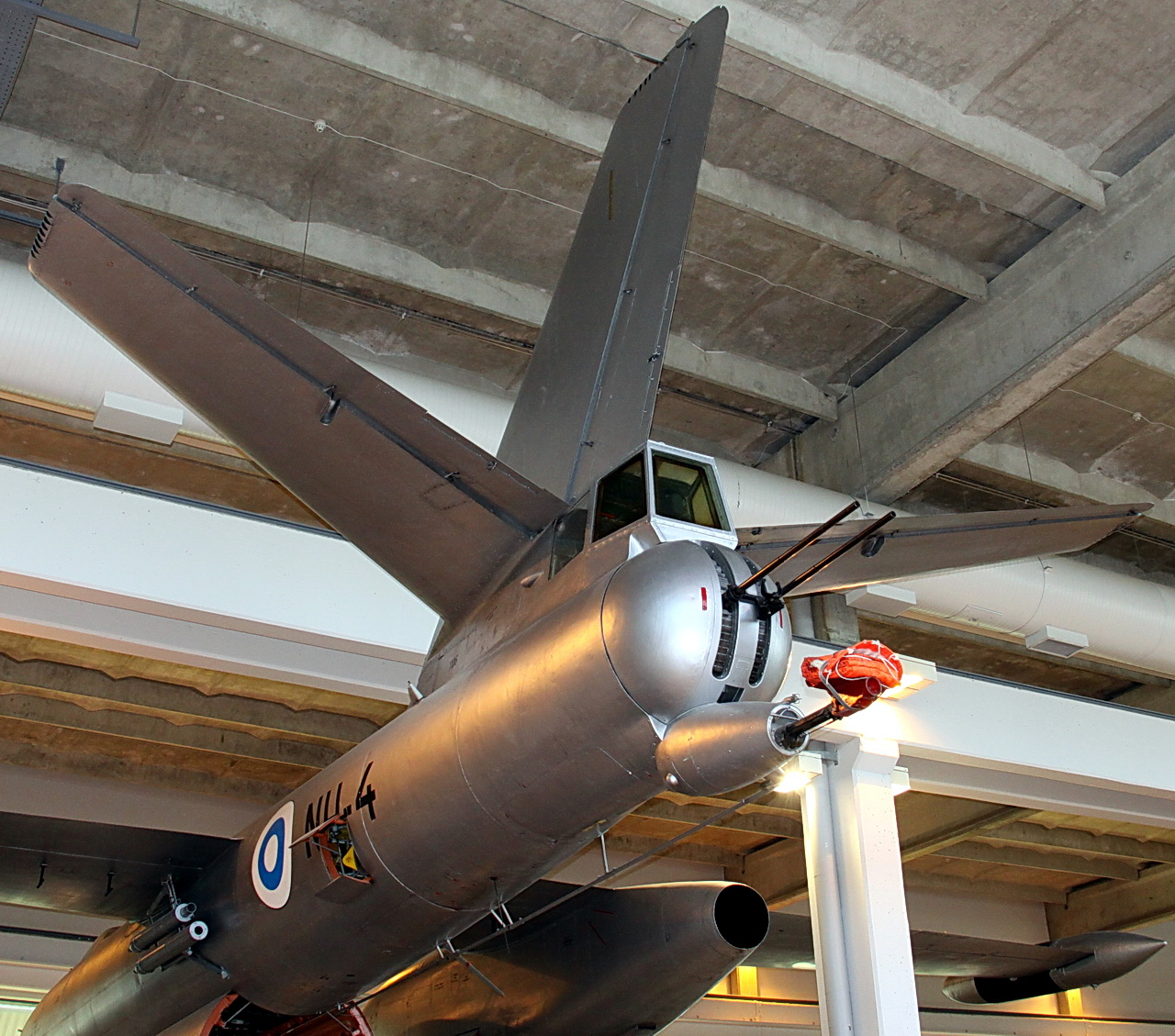 Iljušin IL-28R (NH-4) in Aviation Museum of Central Finland.